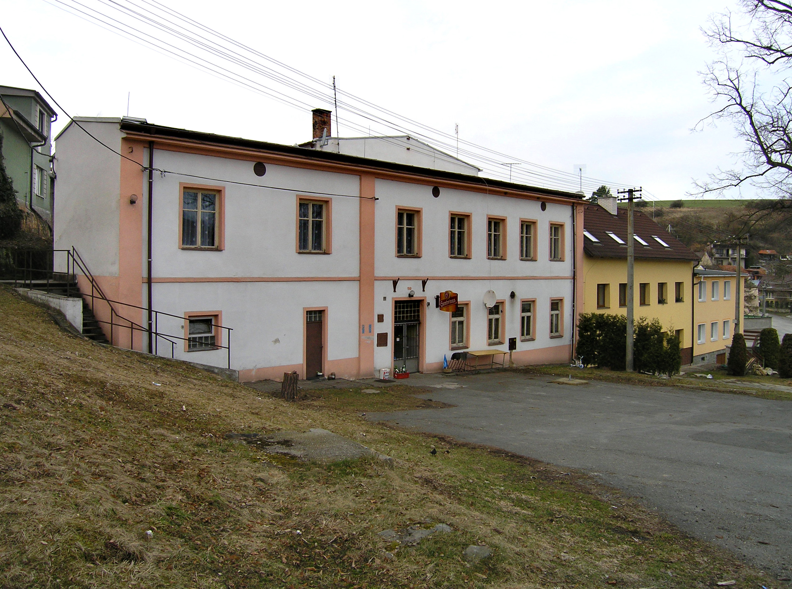 Restaurant in Hromnice village, Czech Republic